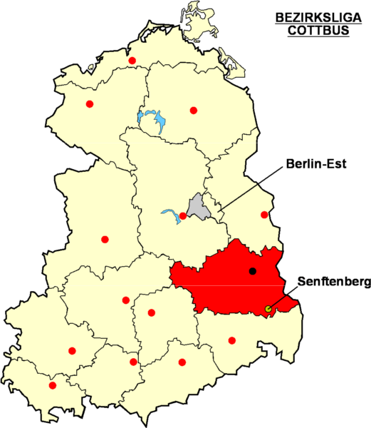 Localisation of the city of Brieske-Senftenberg in the District of Cottbus